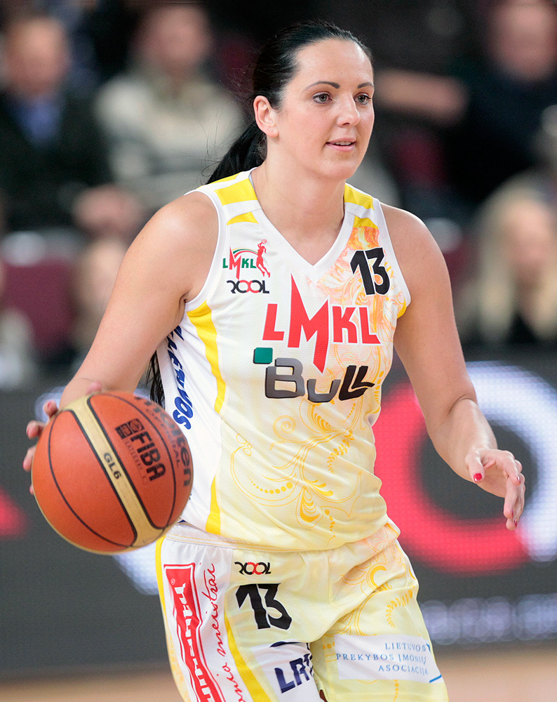 Basketball player Rasa Žemantauskaitė-Matlašaitienė